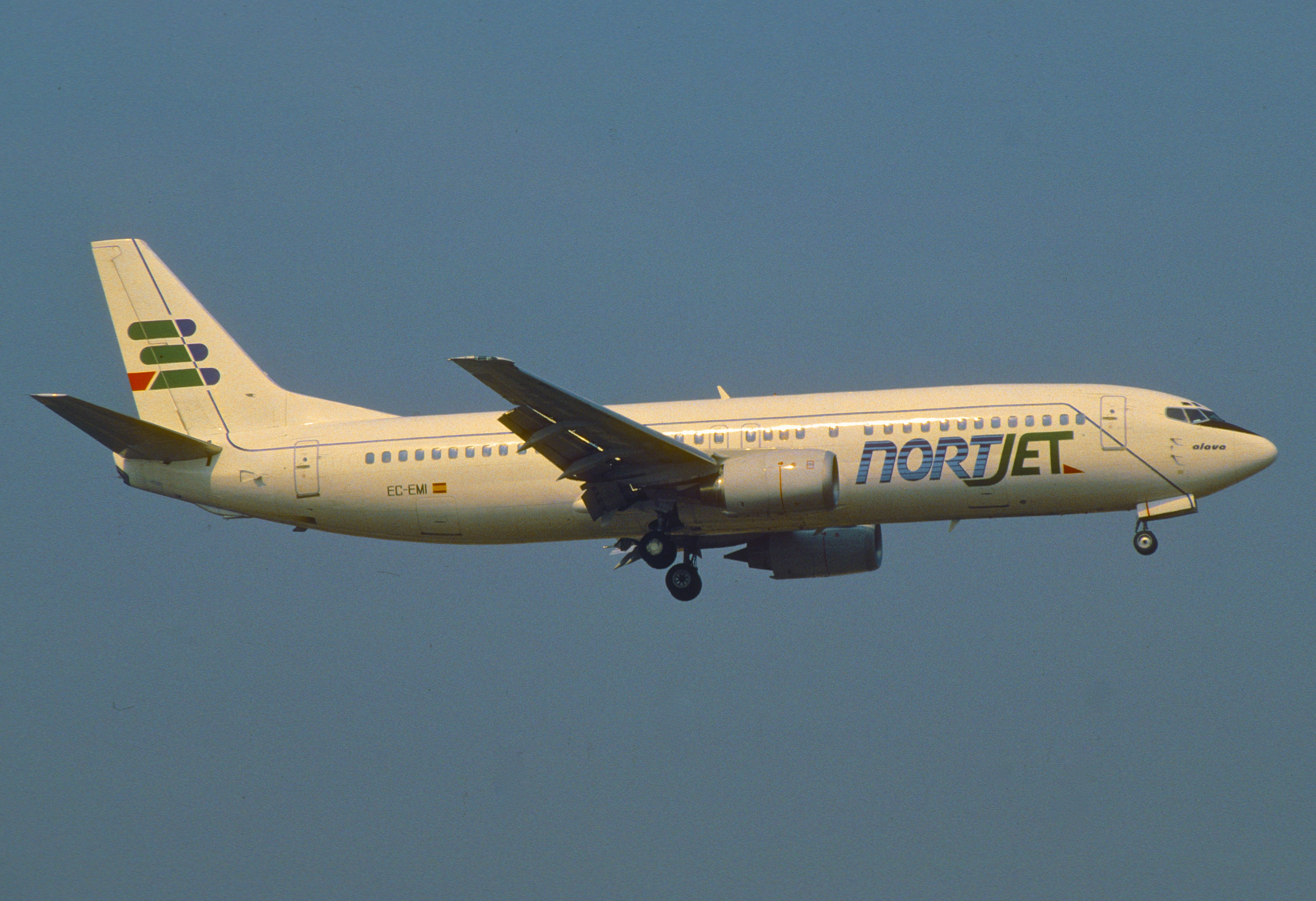 This Boeing 737-4Y0 took its first flight on January 18, 1989...(c/n 23979/ 1661) 18/01/1989 Nortjet EC-239 01/03/1989 Nortjet EC-EMI 14/04/1992 Air Tara EI-CEV 16/06/1992 TAESA XA-CSA 02/04/1993 Sobelair OO-SBN 02/11/1995 EBA Belgium OO-SBN 27/08/1996 Virgin Express OO-SBN 10/05/1997 Pegasus Airlines TC-AFJ 01/09/1999 Air Algérie TC-AFJ 01/04/2001 Pegasus Airlines TC-AFJ 27/08/2002 Khalifa Airways TC-AFJ 27/03/2003 Aigle Azur F-GLXK 01/01/2004 Mandala Airlines PK-RIT stored 02/2009 31/12/2009 Batavia PK-YVP